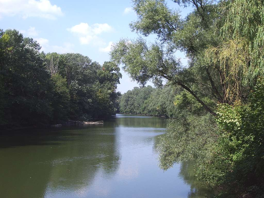 View over the Heustadlwasser at the Viennese Prater.